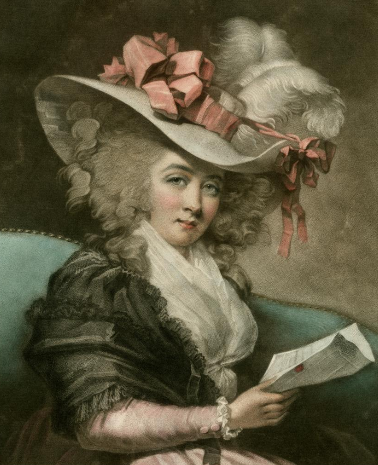 Isabella Vincent aka Mrs Mills by George Engleheart engraved by John Raphael Smith 18 December 1786